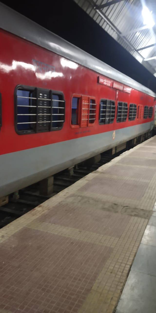 Allahabad New Delhi Humsafar Express Sleeper Coach